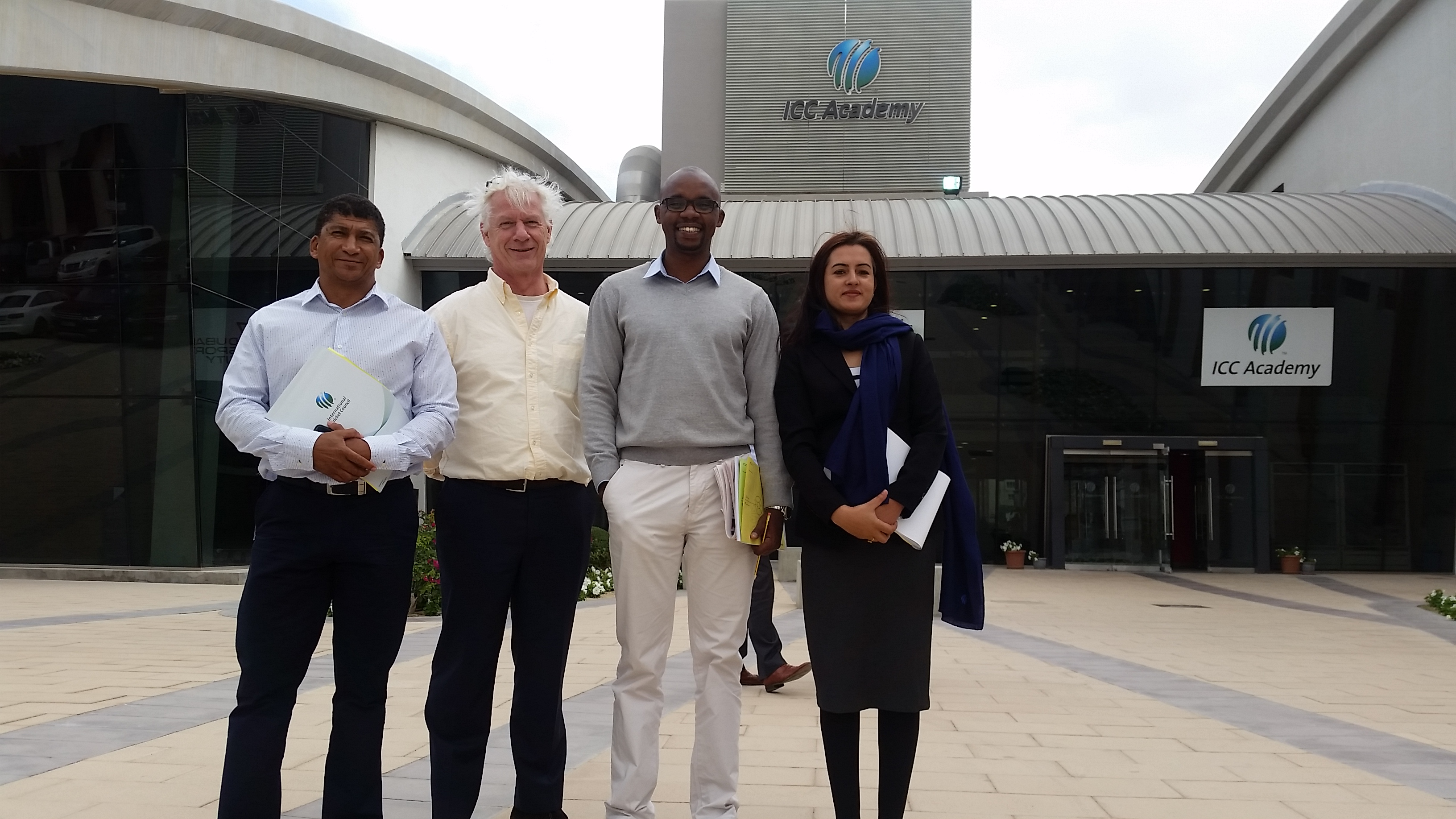 File photo : Bhawana Ghimire representing Nepal in CEO leadership training.